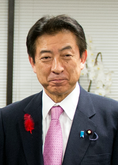 Penny Pritzker, Secretary of Commerce, and Caroline Kennedy, Ambassador to Japan, met Yasuhisa Shiozaki, Minister of Health, Labour and Welfare, at the Ministry of Health, Labour and Welfare in Chiyoda Ward, Tōkyō Metropolis on October 20, 2014.